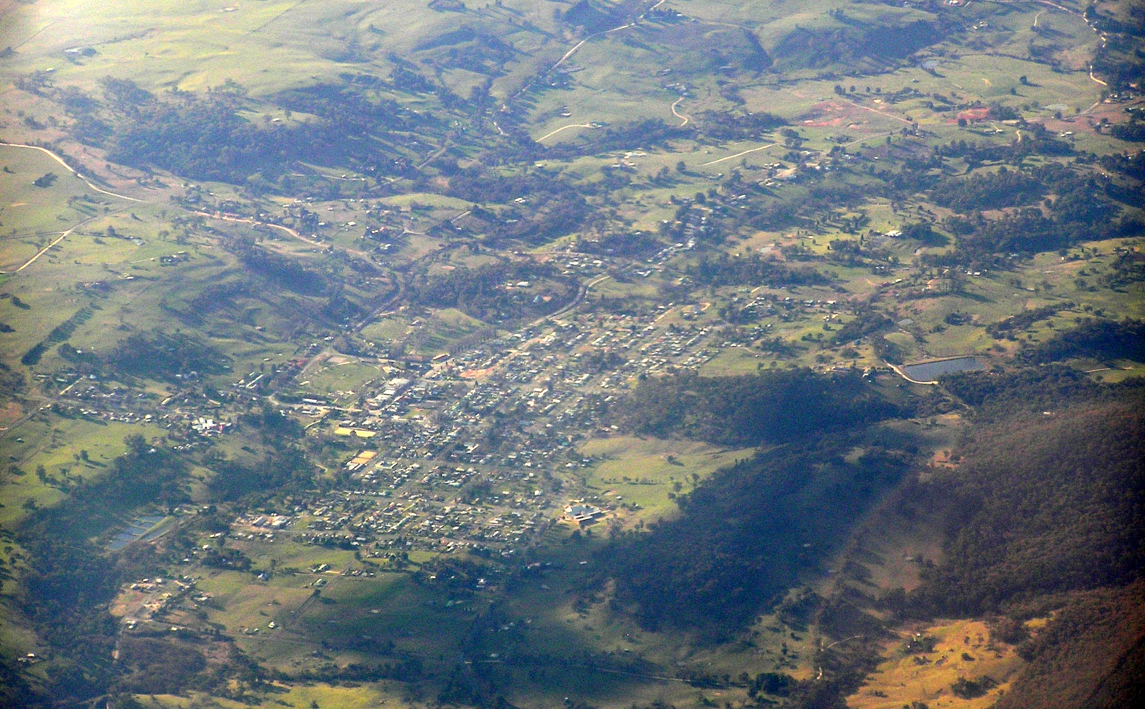 Aerial view of Tumbarumba, New South Wales, Australia, from south-south east